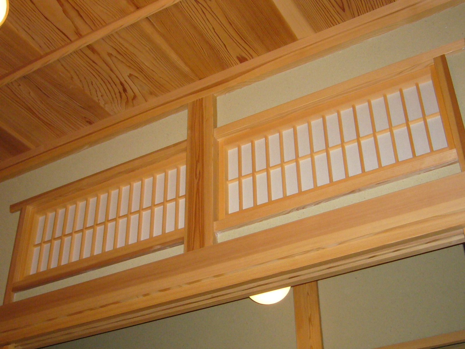 wooden panel used as a decorative transom above paper covered sliding doors,ranma,katori-city,japan